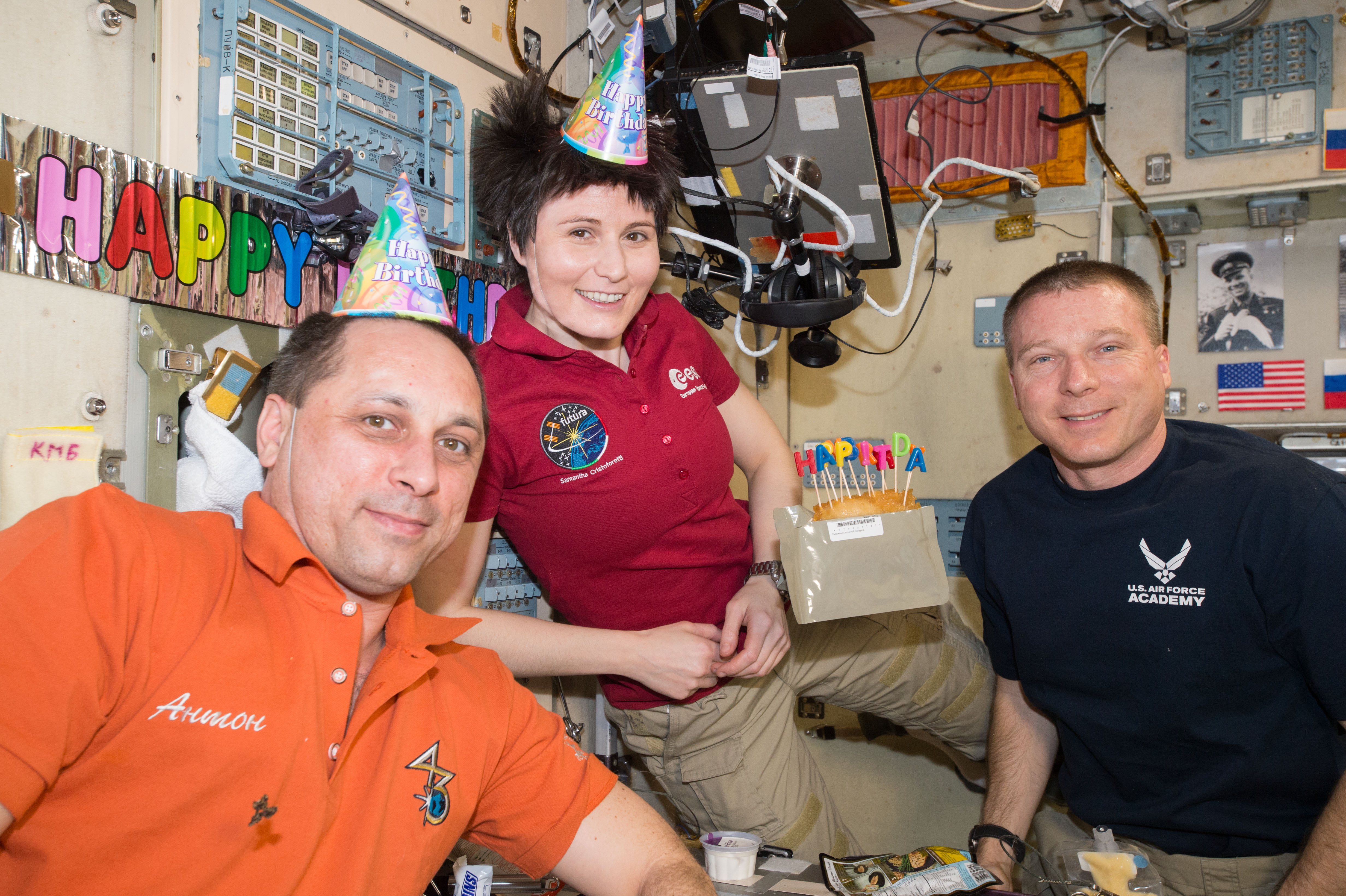 From the International Space Station NASA astronaut Terry Virts (right) tweeted this image of him and his crewmate Russian cosmonaut Anton Shkaplerov celebrating the birthday of ESA (European Space Agency) astronaut Samantha Cristoforetti (middle). His tweet commented: "Happy Birthday @AstroSamantha! We had a great time celebrating as a crew."